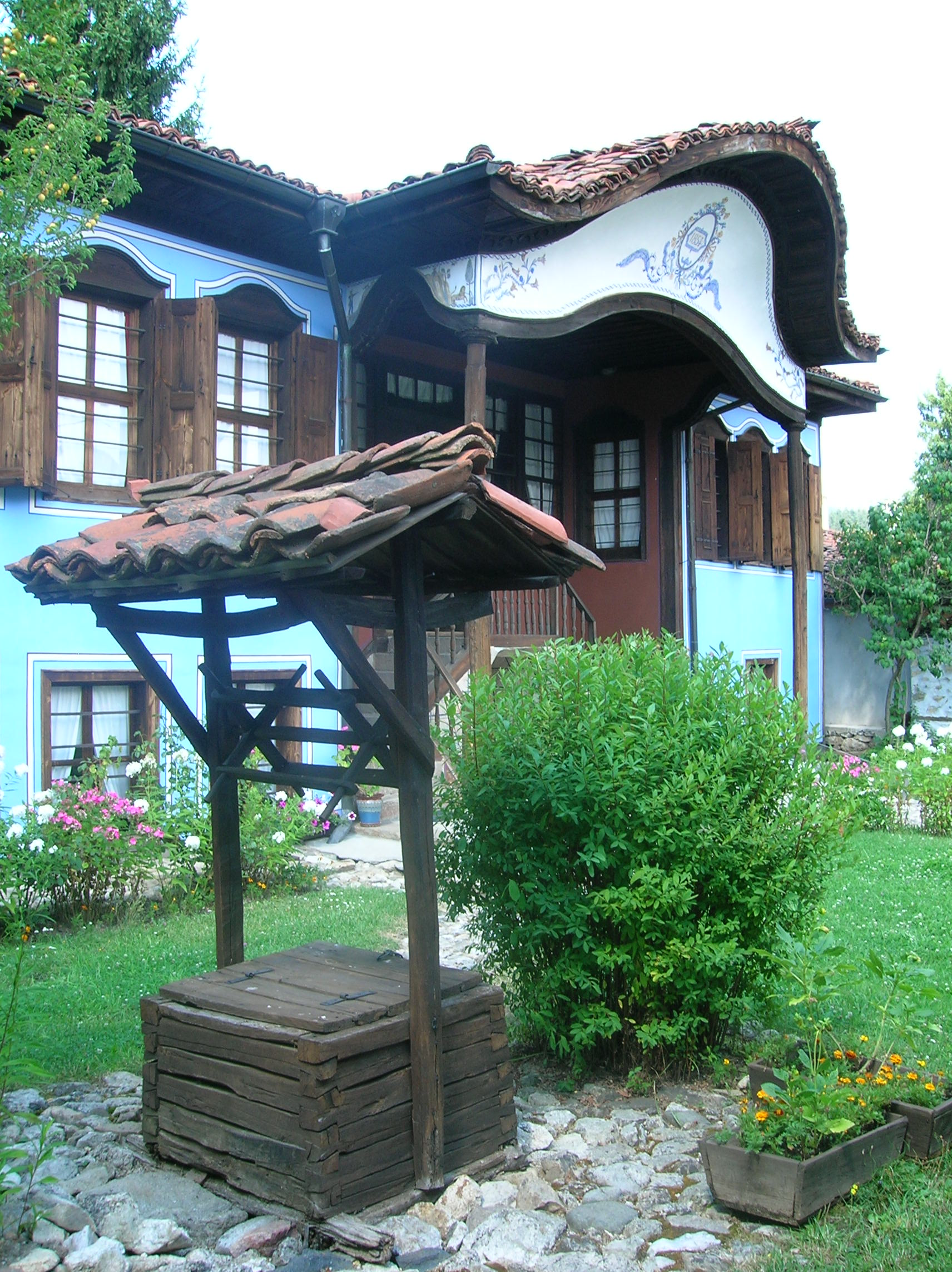 Lyutov House, in Koprivshtitsa (Bulgaria).